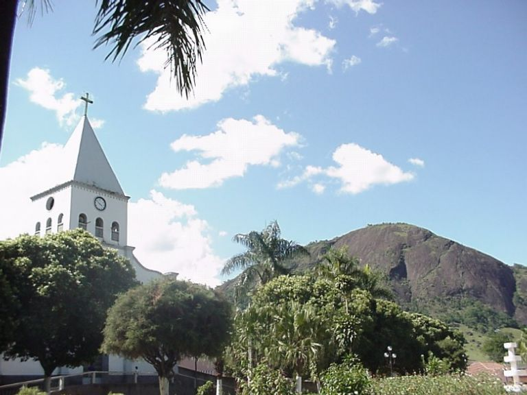 Picture of the central church of Santana do Manhuaçu, Minas Gerais, Brazil, and Sant'ana Mount on secundary plan.